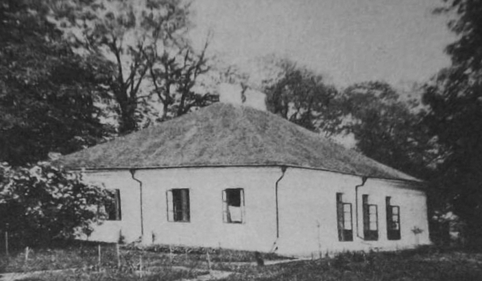 Stecki house.